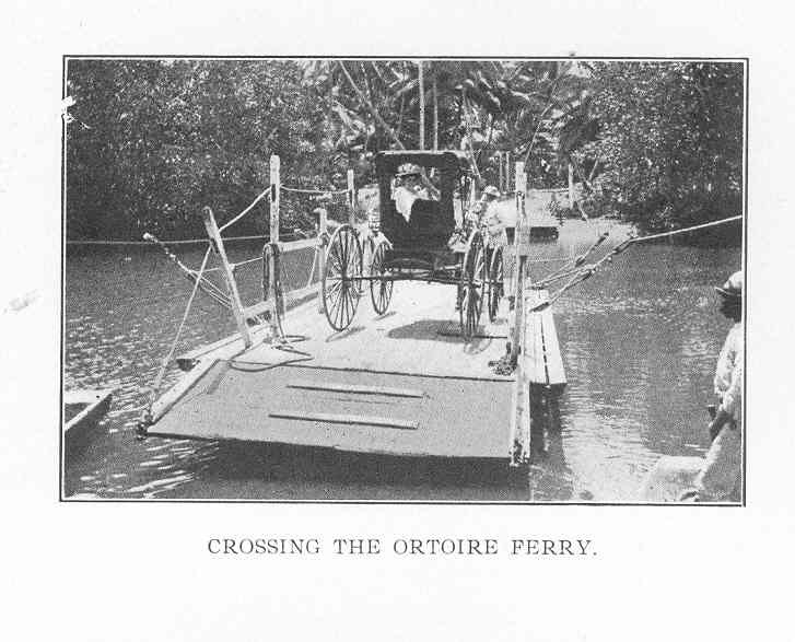 Crossing the Ortoire Ferry Subject: Ortoire River (Trinidad and Tobago), Rivers--Trinidad and Tobago, Ferries--Trinidad and Tobago Geographic Subject: Trinidad and Tobago--Ortoire River Tag: Coasts